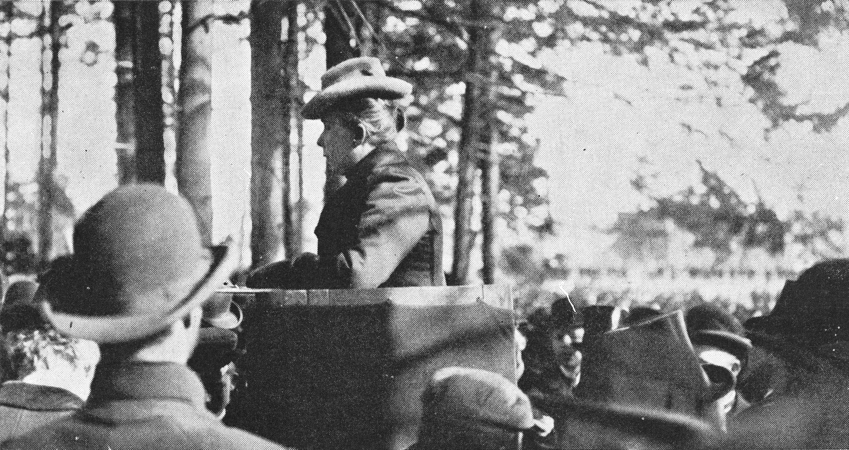 Swedish socialist Kata Dalström in the rostrum in the early 20th century.